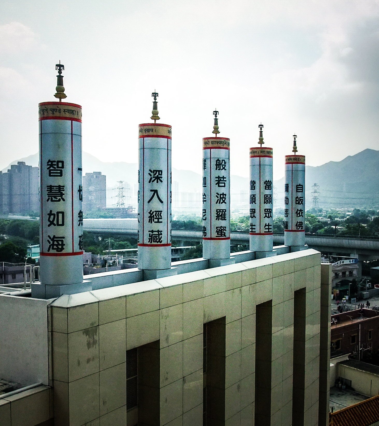 Huge prayer wheels located on top of a building in Miu Fat Buddhist Monastery, Hong Kong.